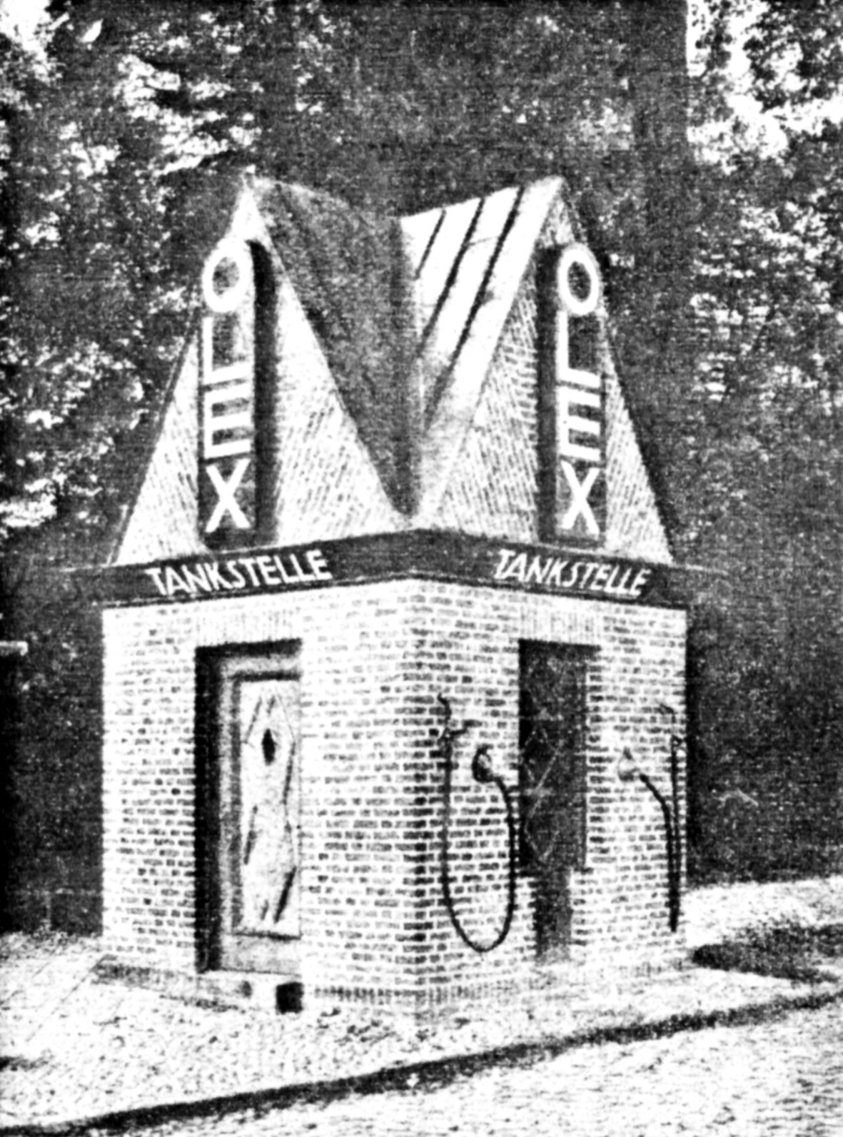 OLEX filling station at Lindenplatz square, Lübeck; built in 1924